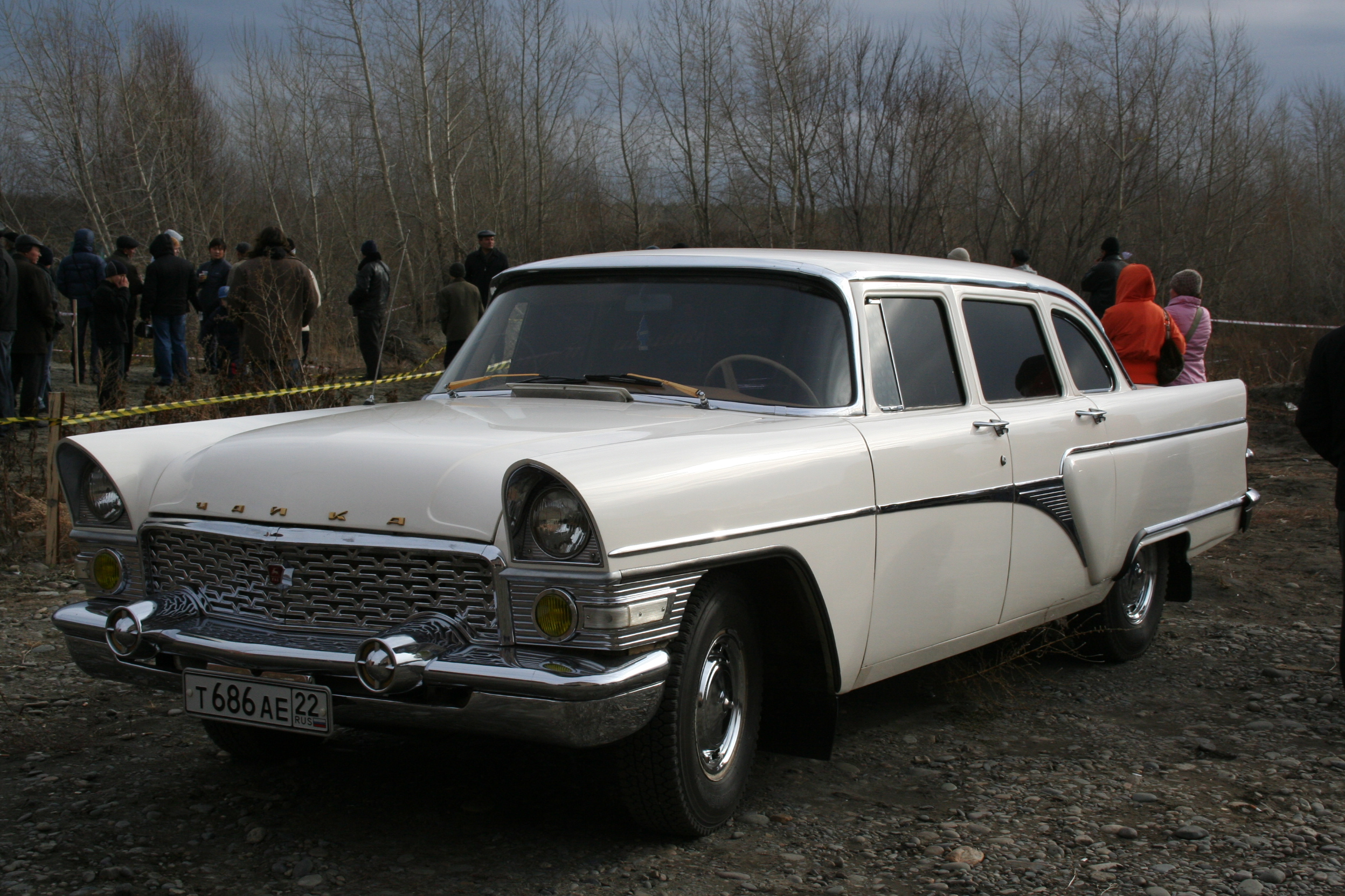 Russian car GAZ-13 Chaika